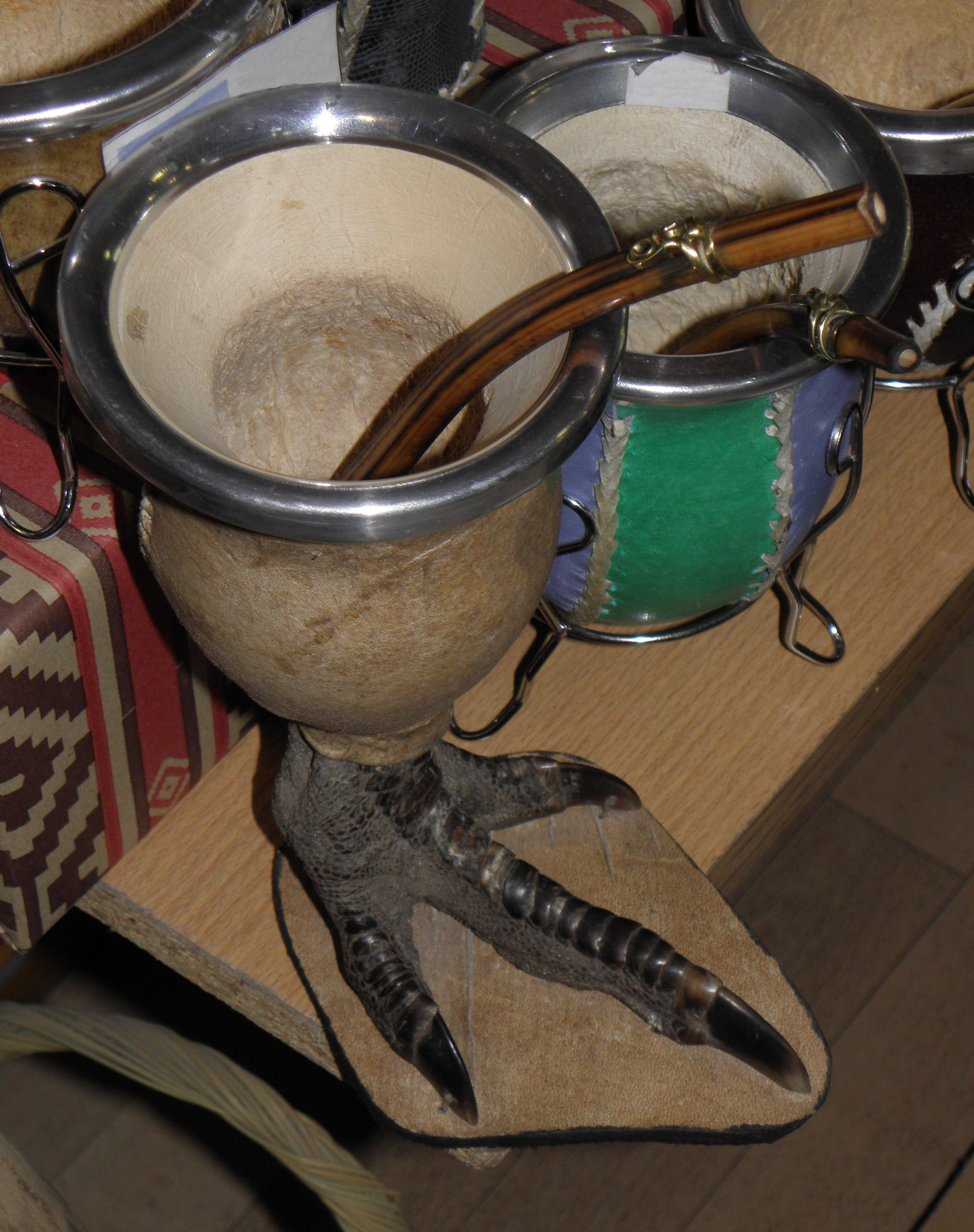 Mate made with paw of Patagonian Lesser Rhea